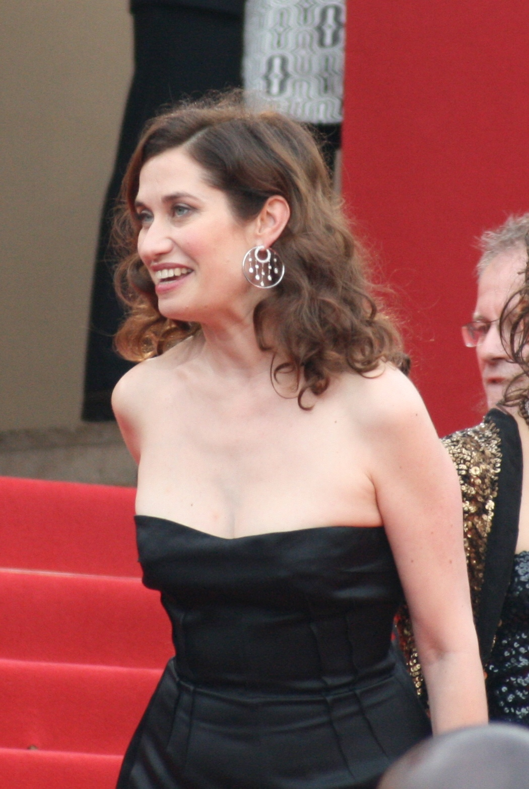 Emmanuelle Devos, at Cannes Film Festival 2009, for film À l'origine.